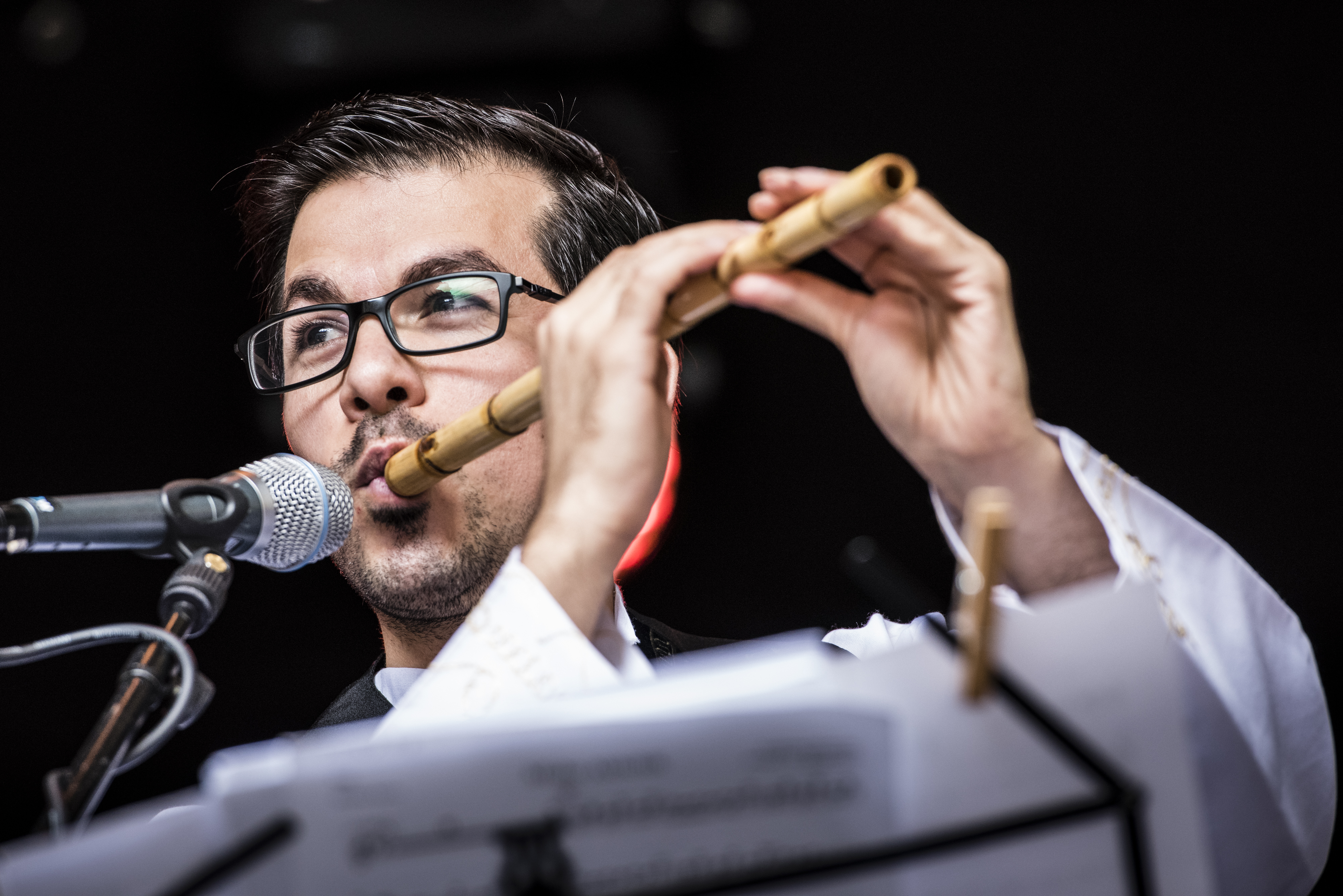 Mohamed Fityan (ney, kawala).Le Fanfareduloup Orchestra&Oriental Traditional and Jazz Quintet of Syria - OrienTales @ Fête de la Musique Genève 2017, 25.06.2017.(c) Christophe Losberger